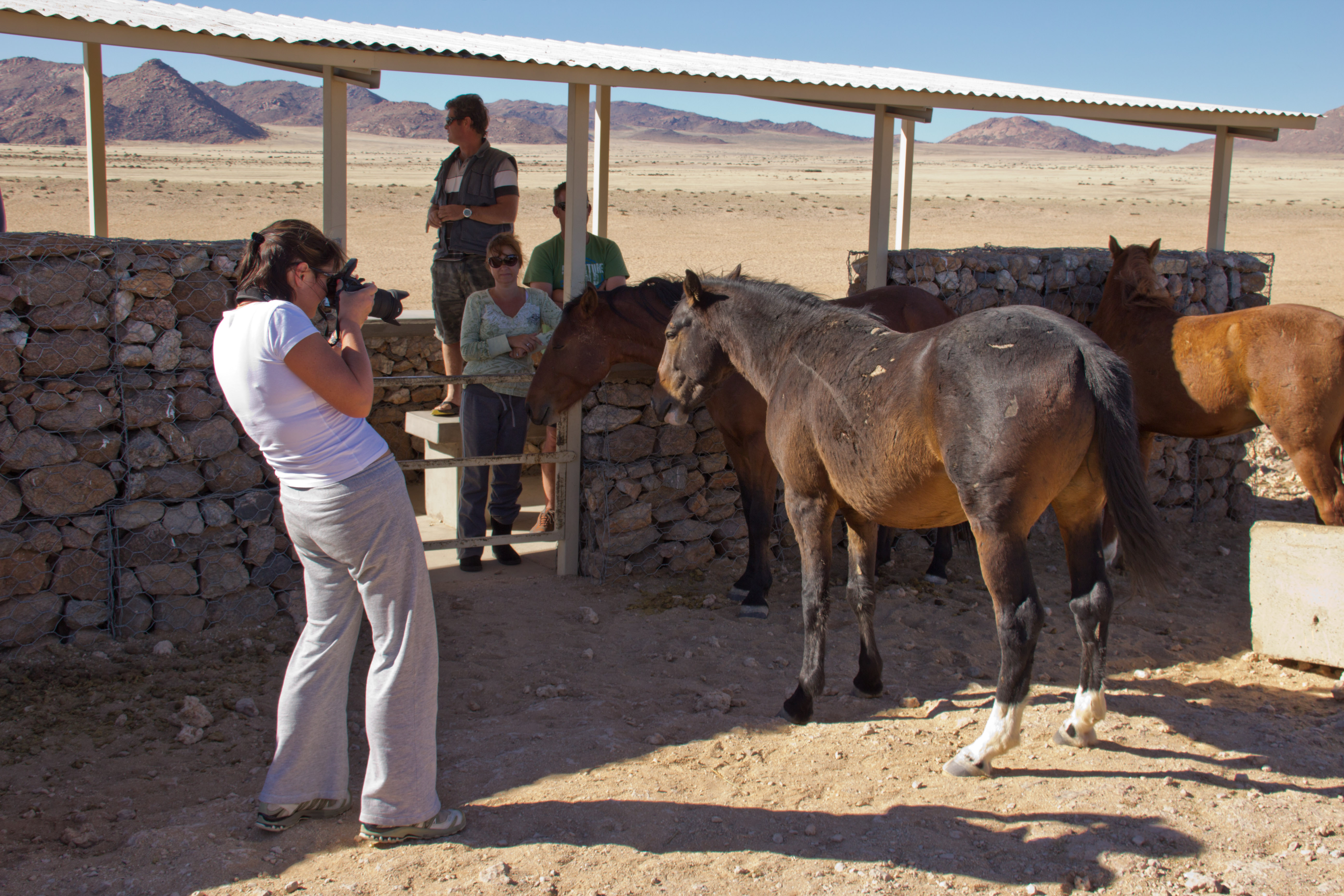 Feral (wild) horses of the Namib